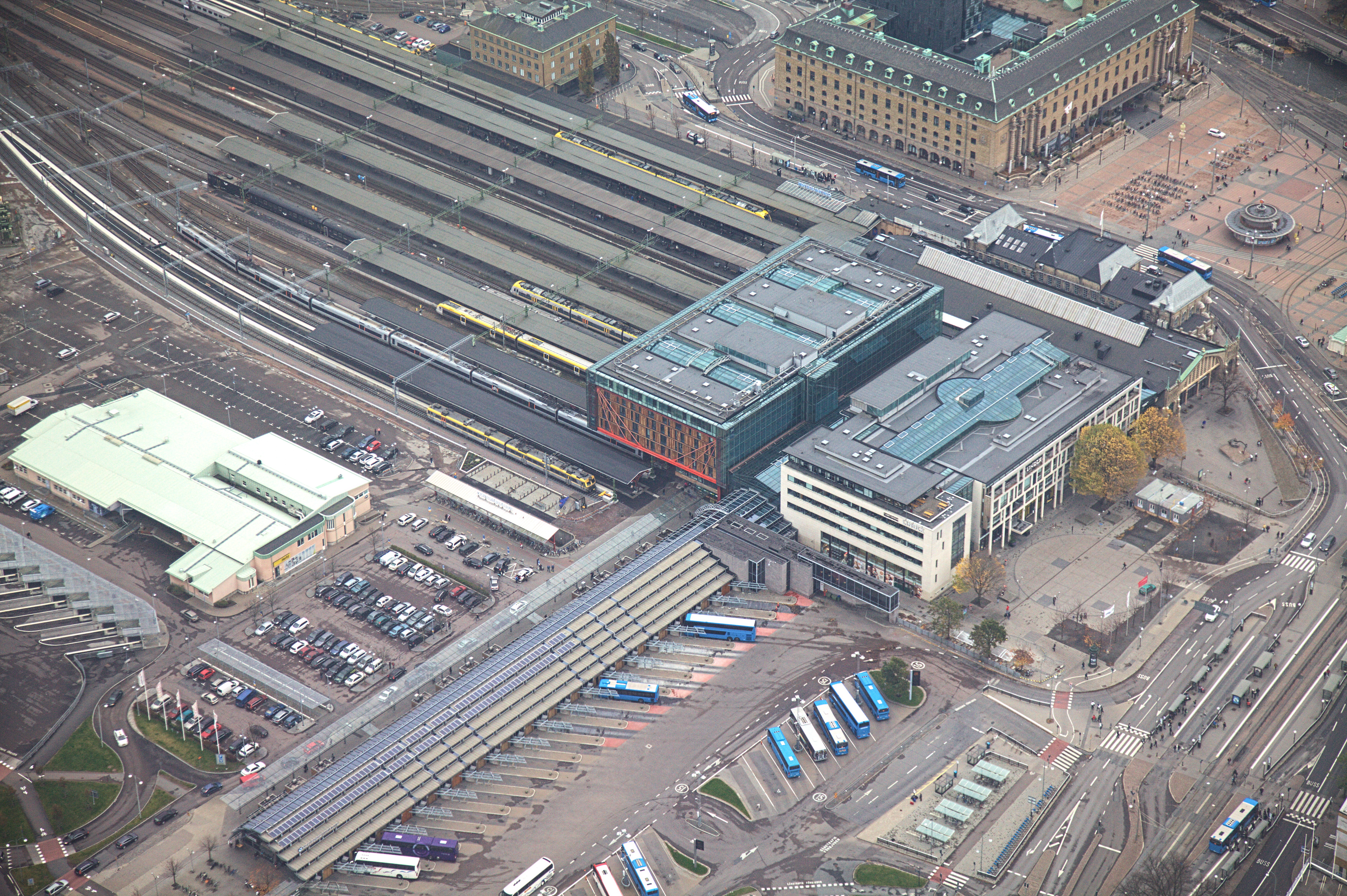 Photo taken on a helicopter over Gothenburg